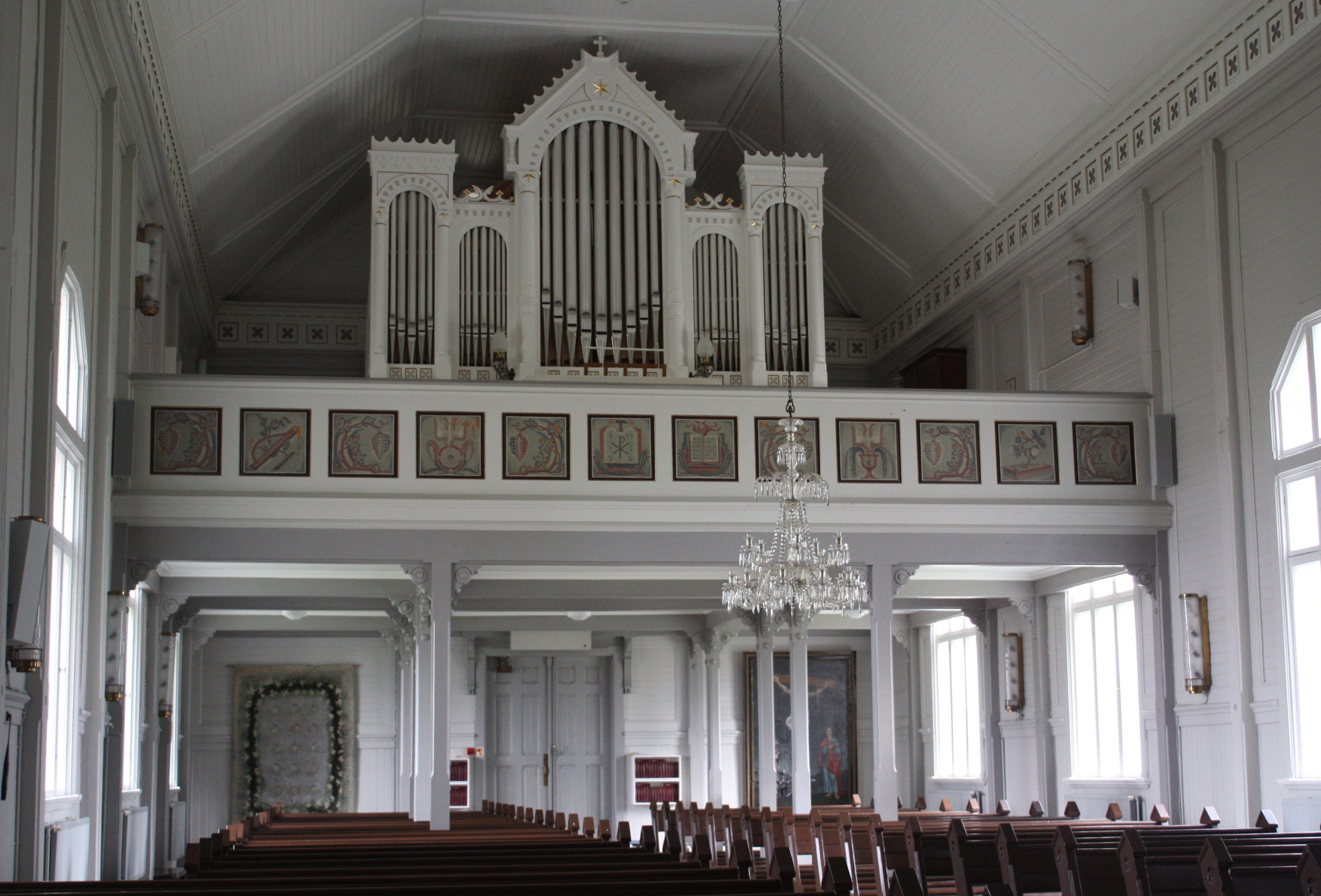 The organs of Multia Church in Multia, Finland, The wooden church was built in 1796 and renovated in 1900.